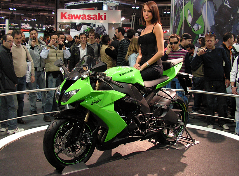 In order to better fit the Ninja 250R page, crop/shrink of original image. Original description: Kawasaki Ninja ZX-10R - EICMA 2007, Milan (Italy)